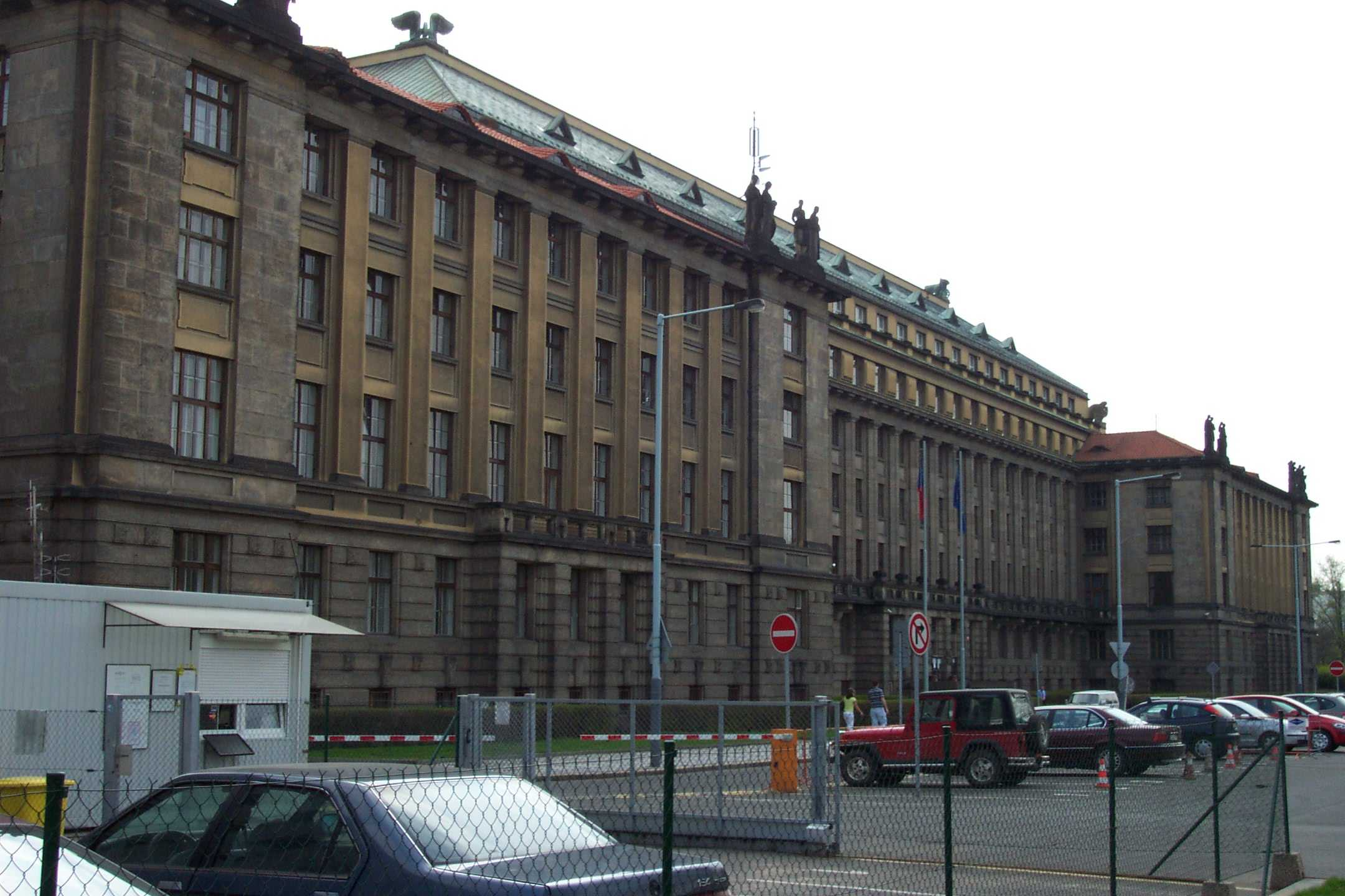 Prague, building of České dráhy (railways) and Ministry of Transport.